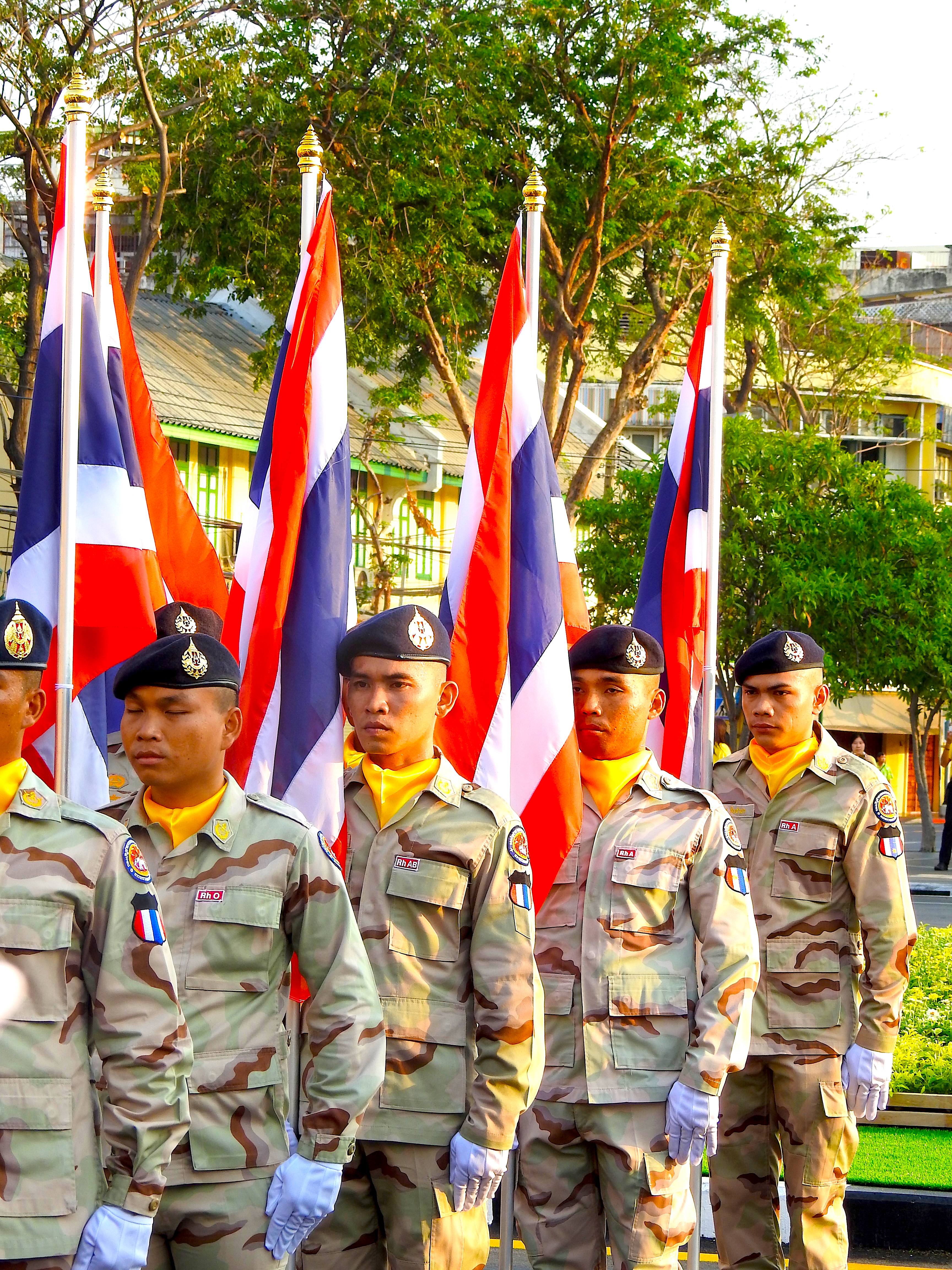 The Coronation of King Rama X